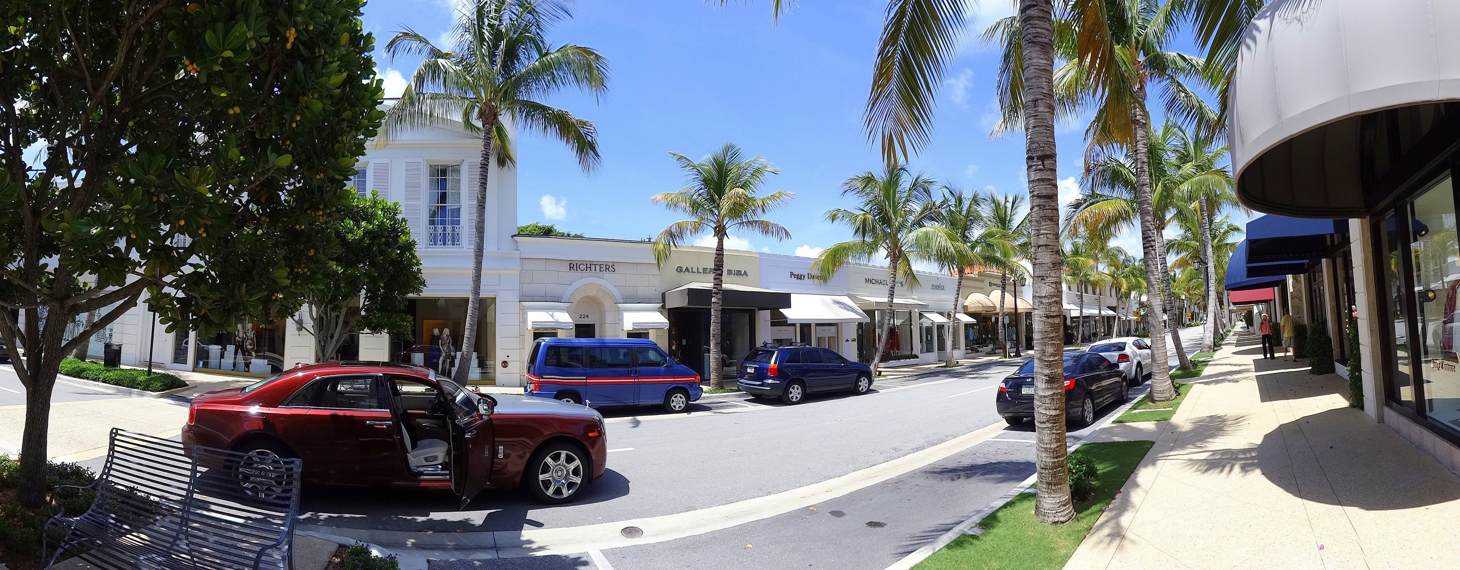 Worth Avenue Palm Beach Florida. For the location of the photo, please refer to its original public sharing site at